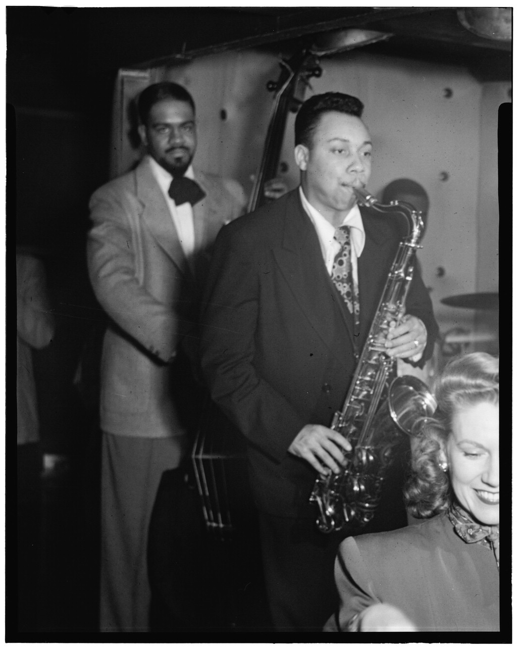 Gottlieb, William P., 1917-, photographer. Lucky Thompson, Hilda A. Taylor, and Al McKibbon, Three Deuces, New York, N.Y., ca. July 1948] 1 negative : b&w ; 4 x 5 in. Caption from Down Beat: Swing was born on Fifty-second Street. Devotees still go there for hot music. Here, at the Three Deuces, Hilda Taylor and a friend enjoy the Lucky Thompson orchestra. A former Miss North Carolina, she is now a professional singer. Notes: Gottlieb Collection Assignment No. 482 Reference print available in Music Division, Library of Congress. Purchase William P. Gottlieb Forms part of: William P. Gottlieb Collection (Library of Congress). In: Collier's, v. 122, no. 1 (July 3, 1948), p. 25. Subjects: Thompson, Lucky, 1924- Taylor, Hilda A. McKibbon, Al Lucky Thompson's All-Stars Jazz musicians--1940-1950. Saxophonists--1940-1950. Double bassists--1940-1950. Fifty-second Street (New York, N.Y.)--1940-1950. Three Deuces Format: Portrait photographs--1940-1950. Cityscape photographs--1940-1950. Film negatives--1940-1950. Rights Info: Mr. Gottlieb has dedicated these works to the public domain, but rights of privacy and publicity may apply. Repository: (negative) Library of Congress, Prints & Photographs Division, Washington D.C. 20540 USA, (reference print) Library of Congress, Music Division, Washington D.C. 20540 USA, Part Of: William P. Gottlieb Collection (DLC) 99-401005 General information about the Gottlieb Collection is available at Persistent URL: Call Number: LC-GLB13- 0852